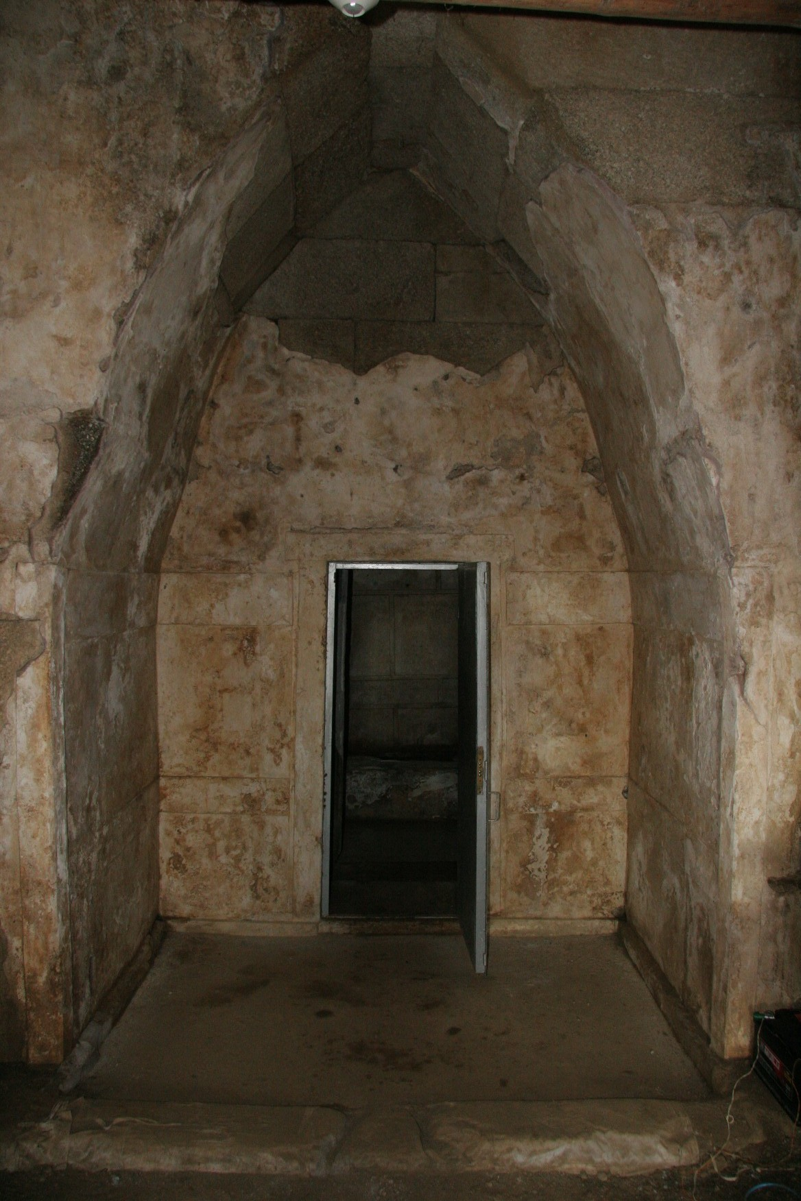 view from inside